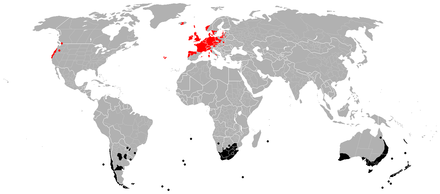 World distribution of Campylopus introflexus. Black areas represent native distribution. Red areas represent alien distribution.